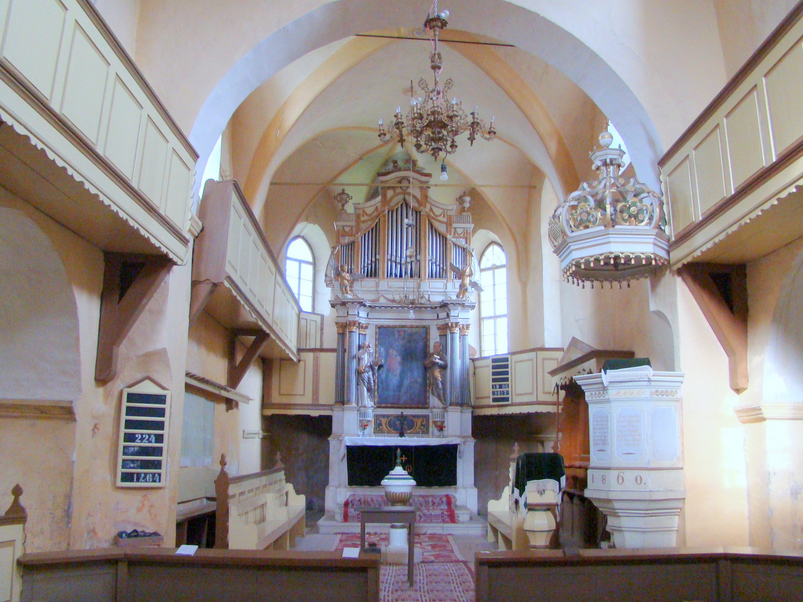 Fortified church in Cața, Braşov County, Romania